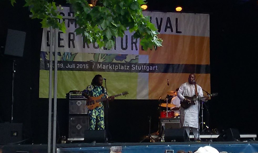 Vieux Farka Touré at the Sommerfestival der Kulturen, Stuttgart, 2015-07-19